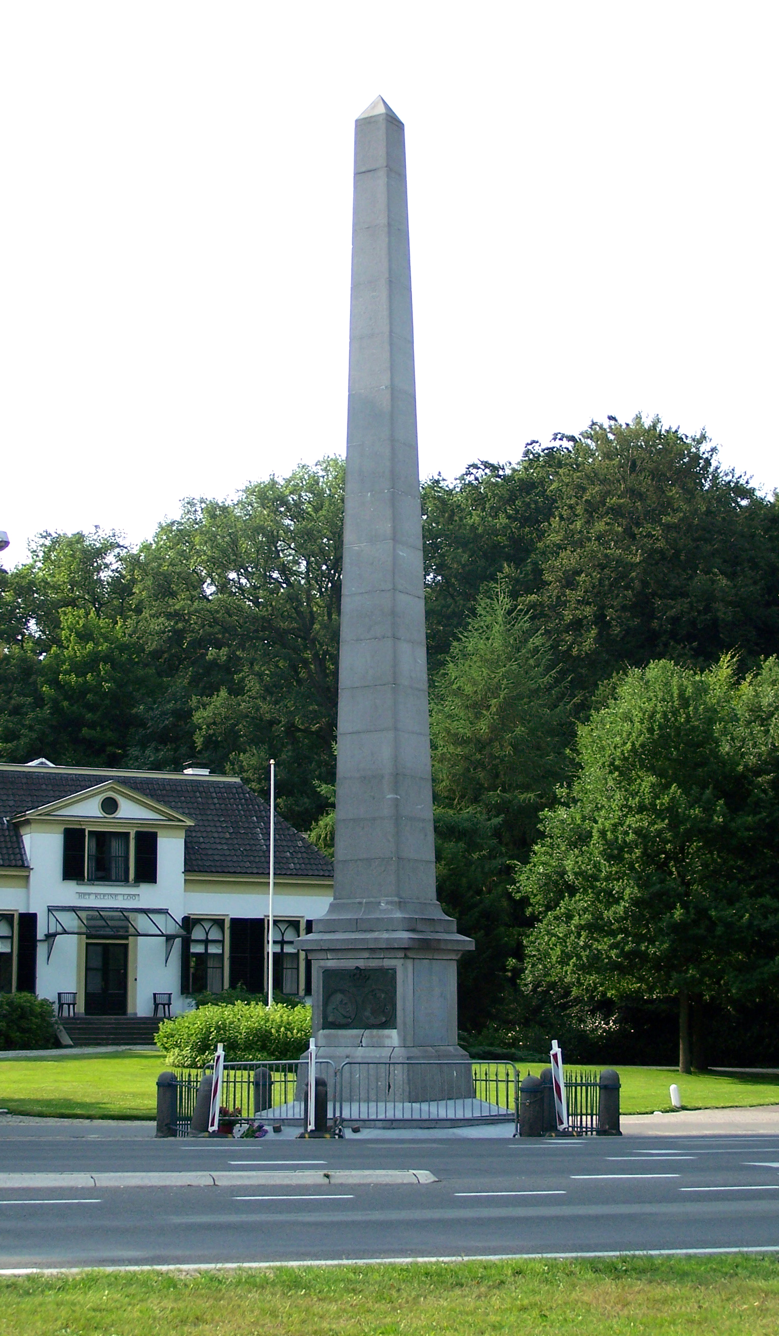 Monument "De Naald" (The Needle) at the corner of the Loolaan/ Zwolseweg. Placed in 1901 in honour of king William III and queen Emma and the newlyweds princess Wilhemina and prince Hendrik. It was a design of Gerrit de Zeeuw with a relief of Pieter Puype. The photo was taken ± after the incident that happened on Queensday.